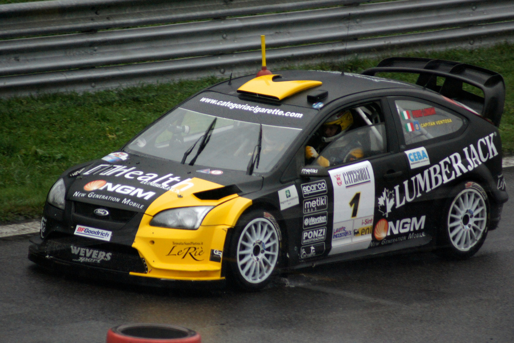 Piero Longhi and Capitan Ventosa at Monza Rally Show 2010